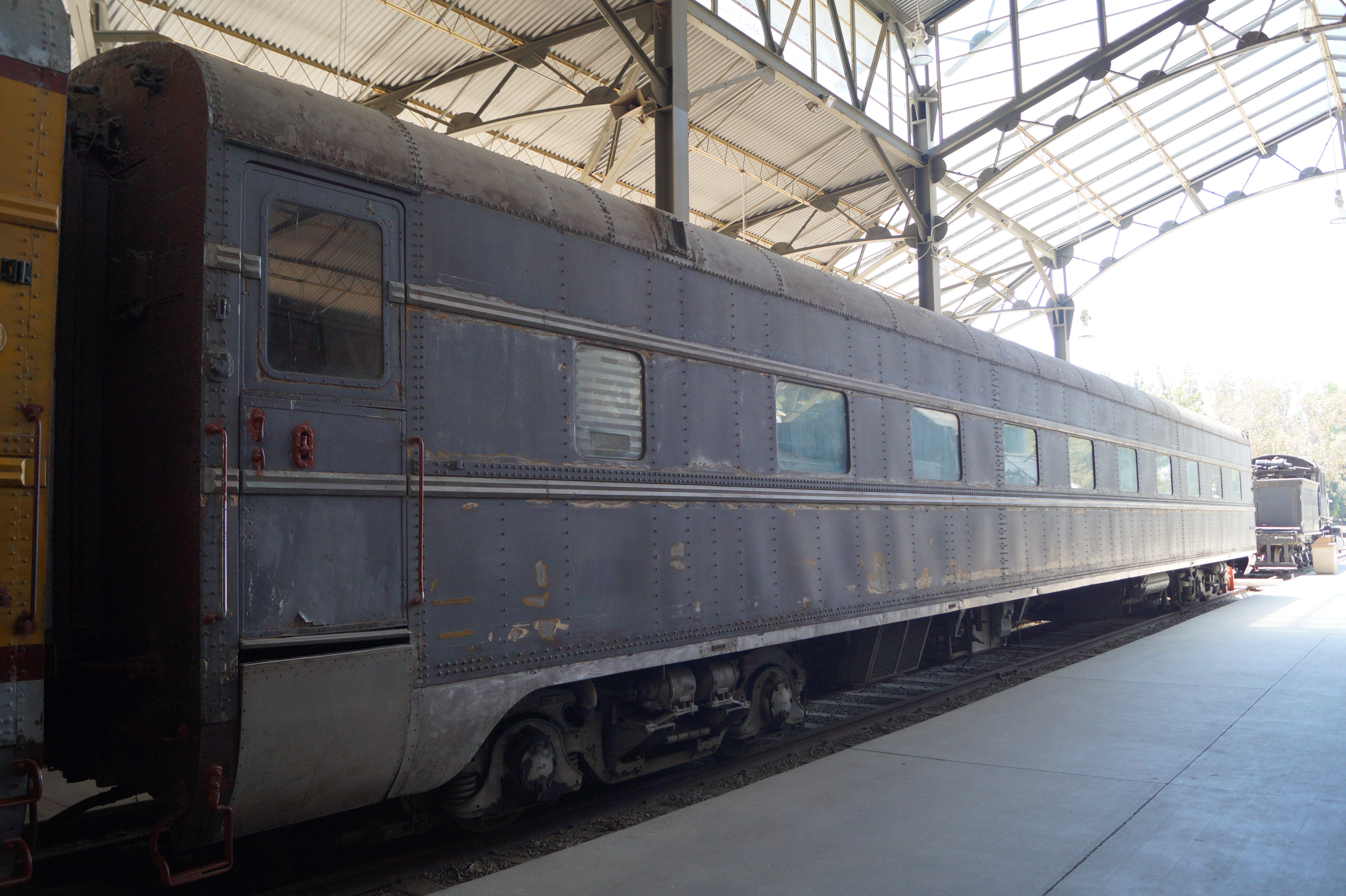 Travel Town Museum is a transport museum dedicated in the northwest corner of Los Angeles, California's Griffith Park. The history of railroad transportation in the western United States from 1880 to the 1930s is the primary focus of the museum's collection, with an emphasis on railroading in Southern California and the Los Angeles area.